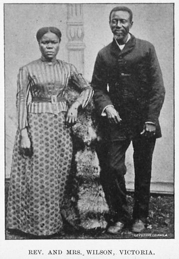 Rev. and Mrs. Wilson, Victoria. From Glimpses of Africa, West and Southwest coast ; containing the author's impressions and observations during a voyage of six thousand miles from Sierra Leone to St. Paul de Loanda and return, including the Rio del Ray and Cameroons rivers, and the Congo River, from its mouth to Matadi (published 1895).